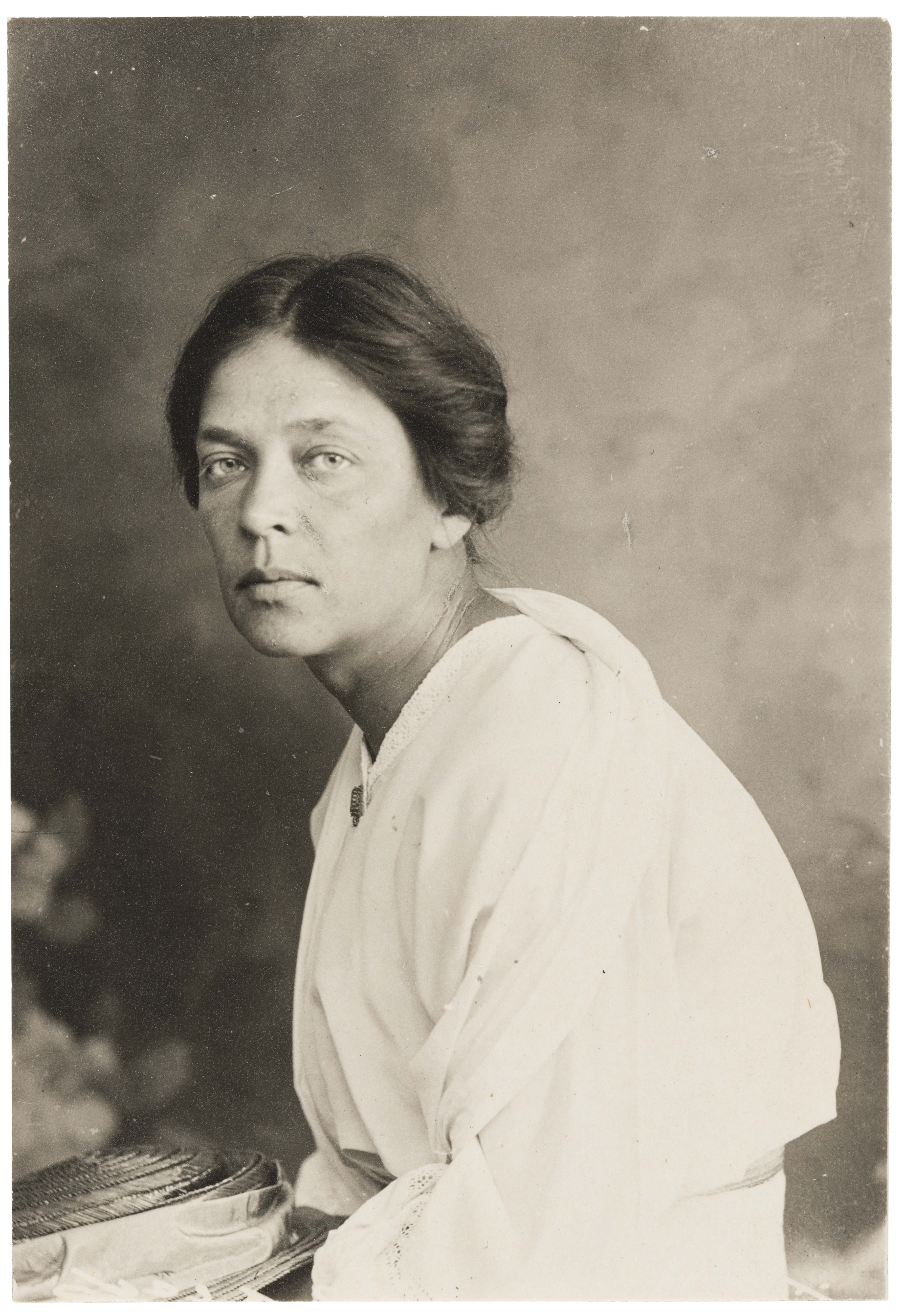 Photograph of the Finnish painter Ellen Thesleff (1869–1954).